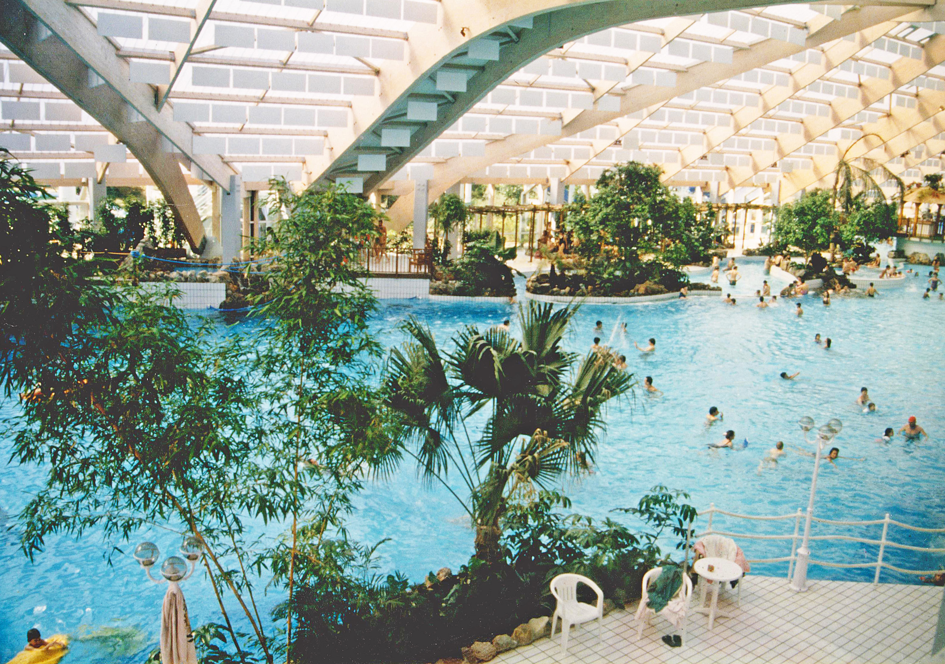 Aquatic center - internal view.